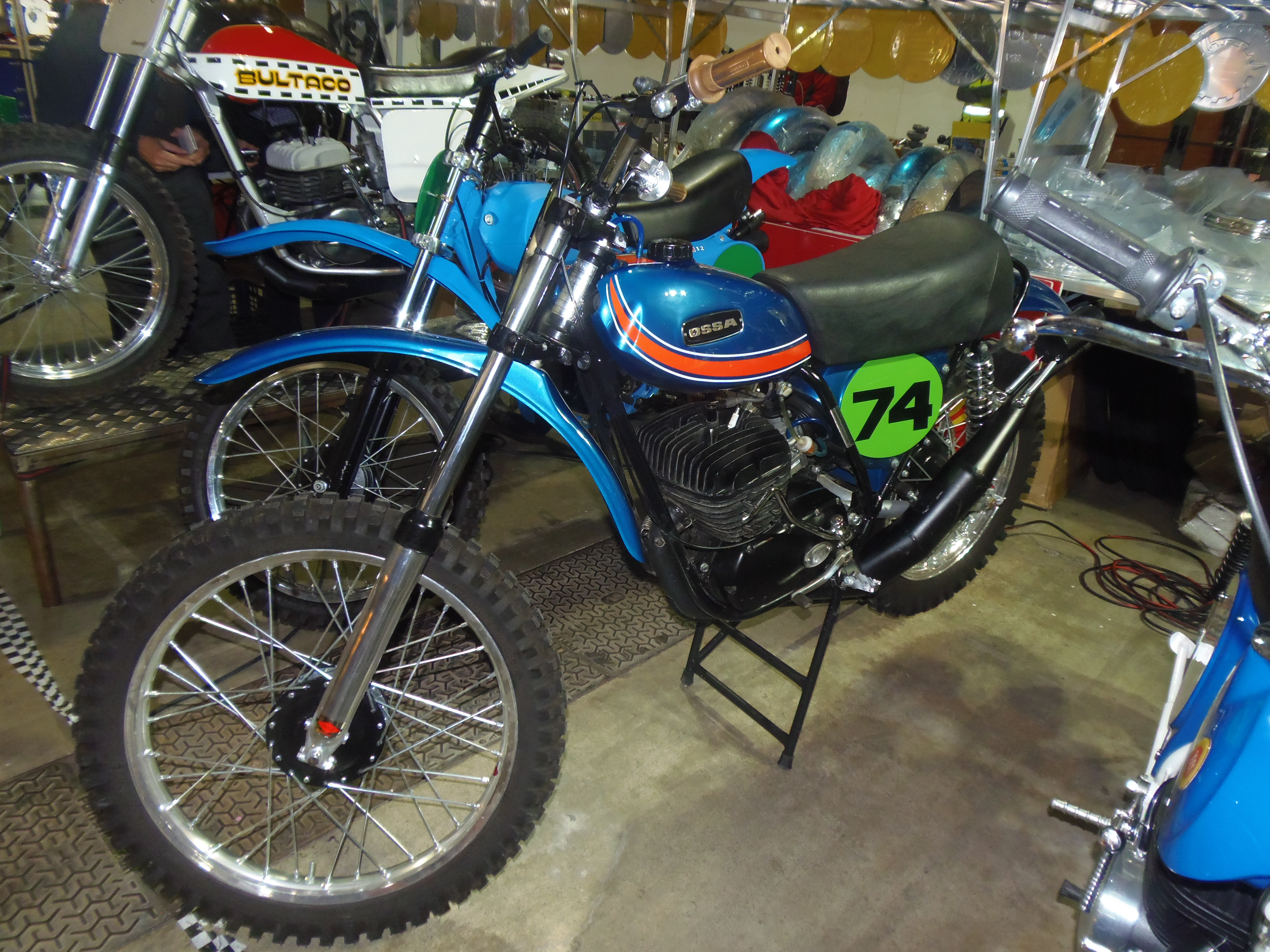 OSSA Phantom 250, 1974